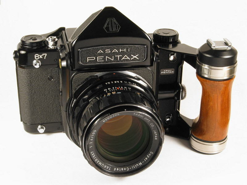 The Asahi Pentax 6×7 camera with plain finder prism, std. 105/2.4 lens and accessory grip